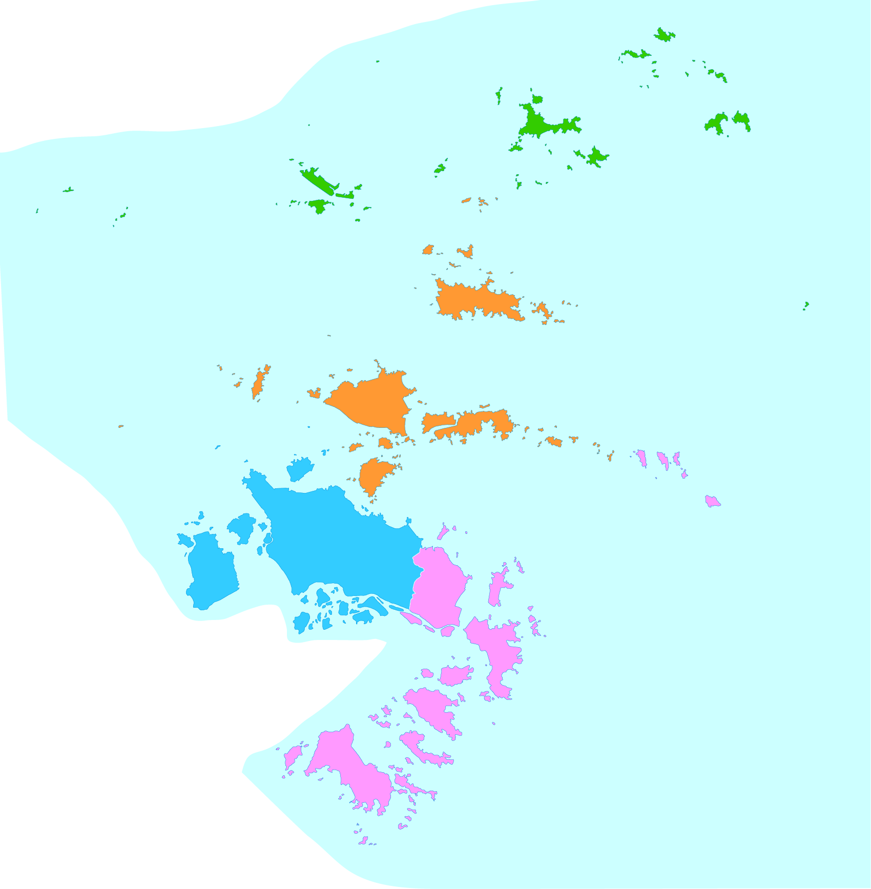 administrative districts of Zhoushan City, Zhejiang, China Dinghai 定海区 Putuo 普陀区 Daishan 岱山县 Shengsi 嵊泗县